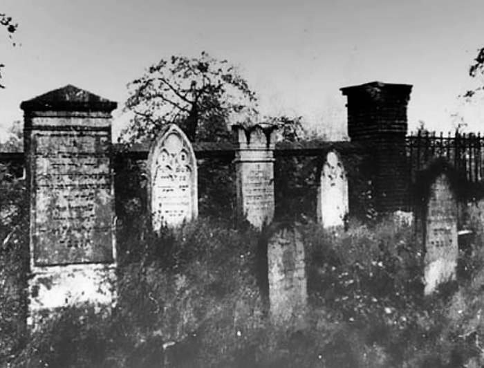 Jewish Cemetery, Hagenow Germany 1940